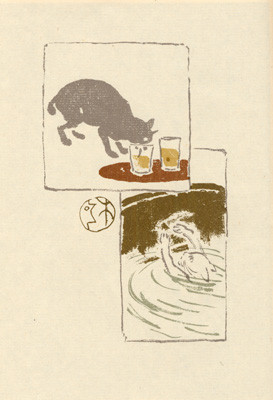 Illustration of "I Am a Cat".